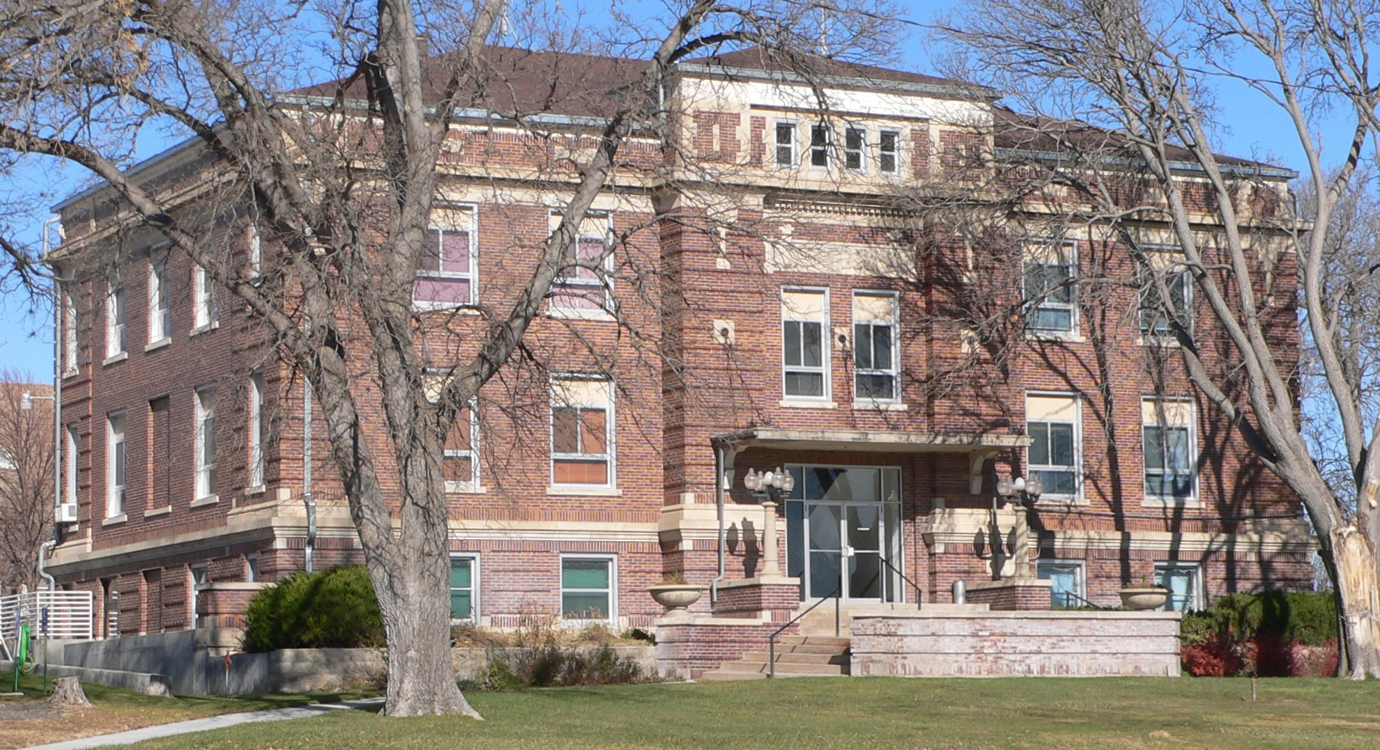 Dundy County Courthouse in Benkelman, Nebraska; seen from the southwest.